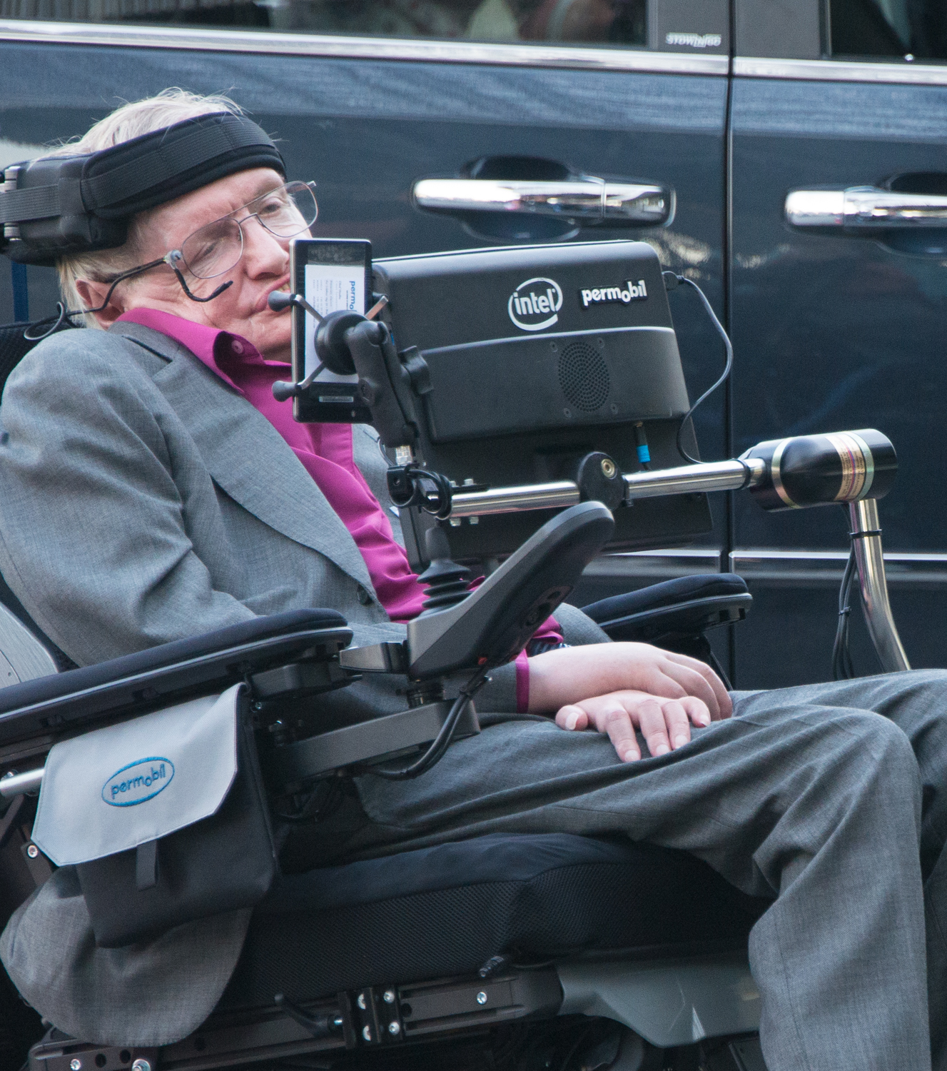 Stephen Hawking visits Stockholm on August 24, 2015 in conjunction with a public lecture on black holes and participation in a historic conference on Hawking Radiation.